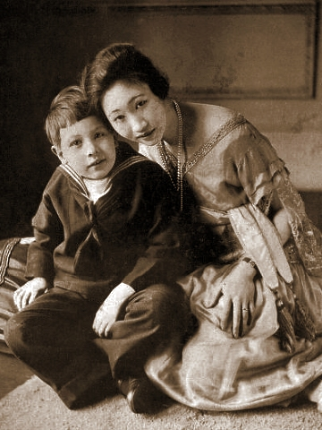 Hui Oei-lan (then Mrs Beauchamp Caulfield-Stoker) and her only son from that marriage, Lionel Montgomery Caulfield-Stoker